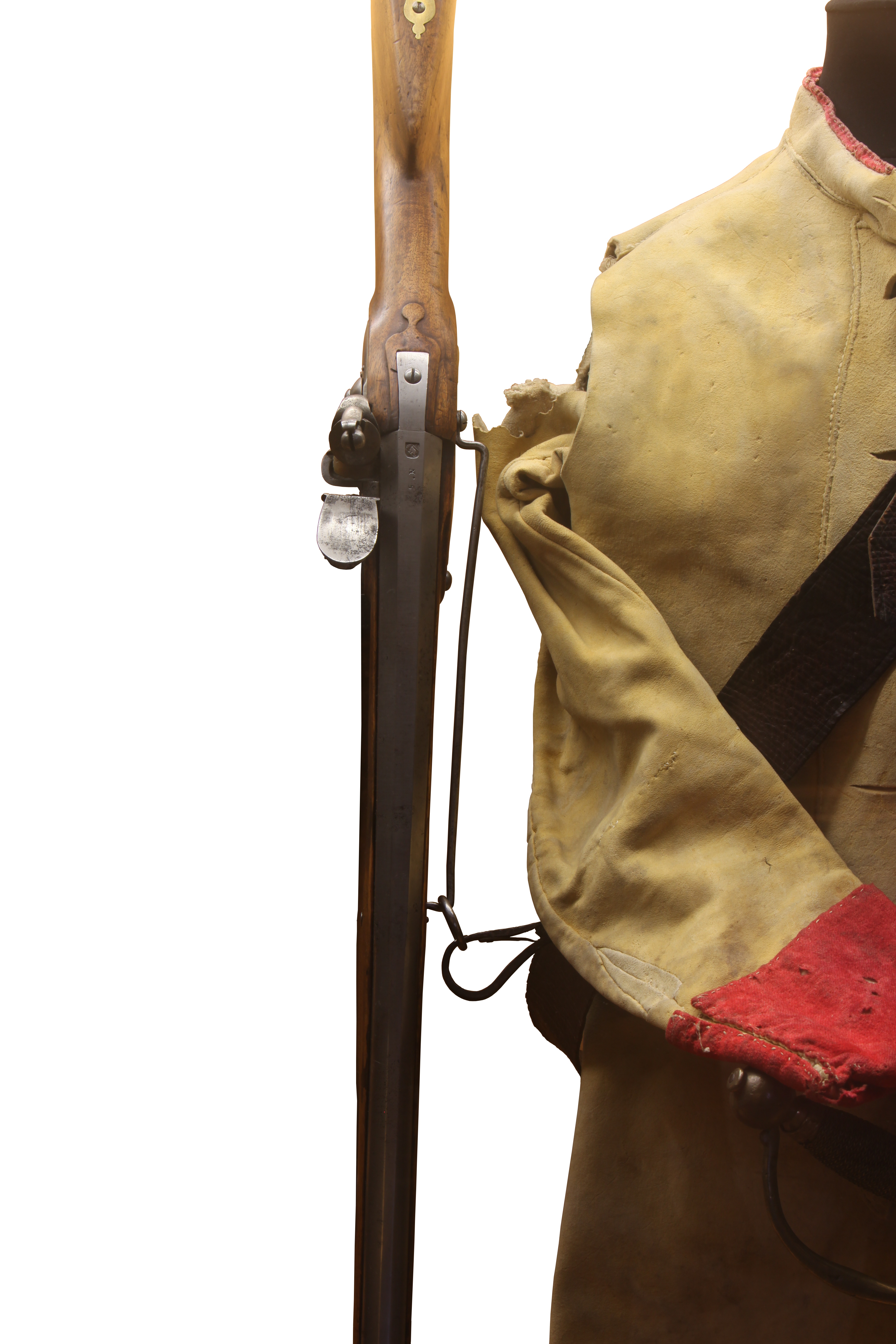 Carbin of a Swiss Dragoon, with the strap system. On display at Morges military museum.